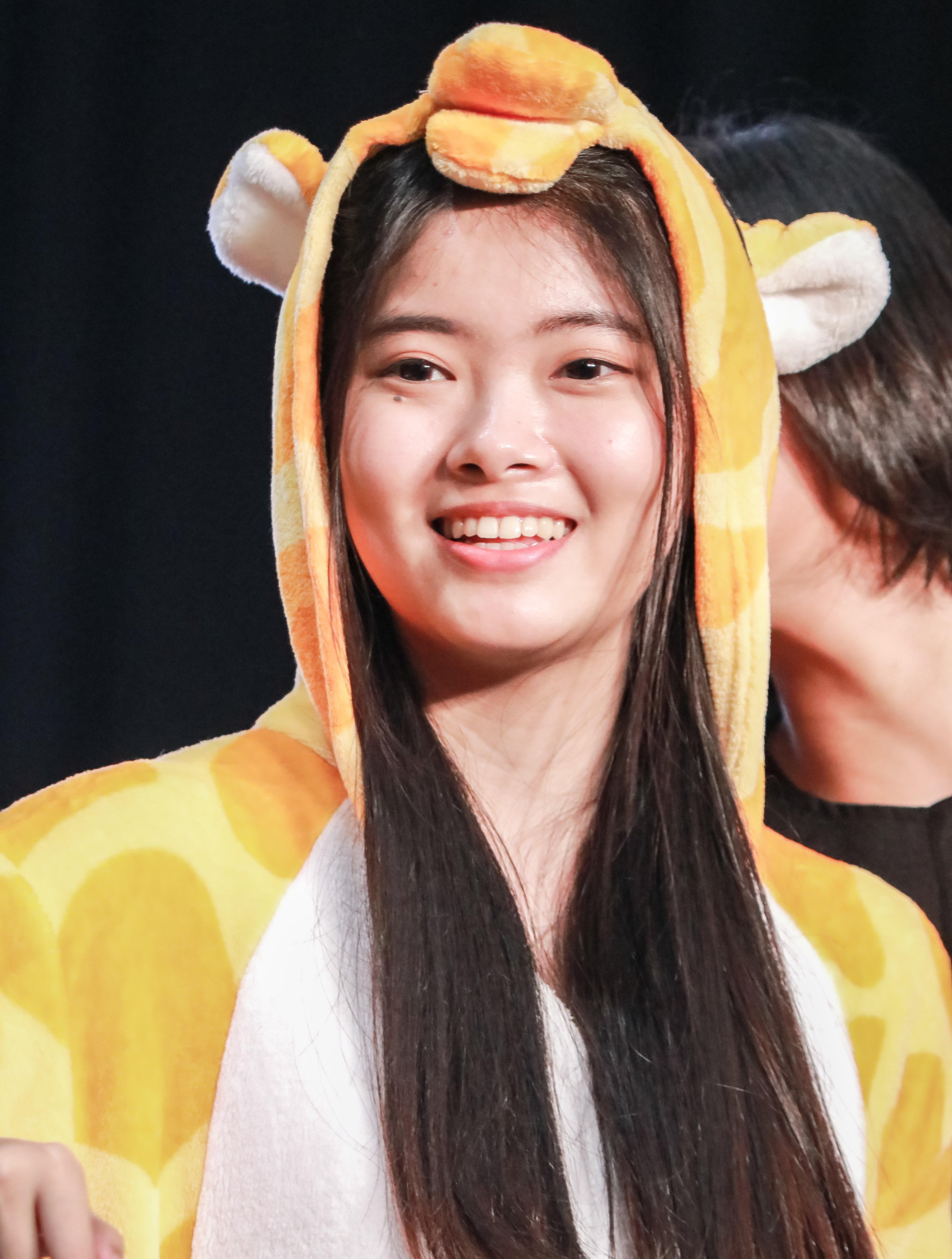 Fiony Alveria Tantri on 21 December 2019